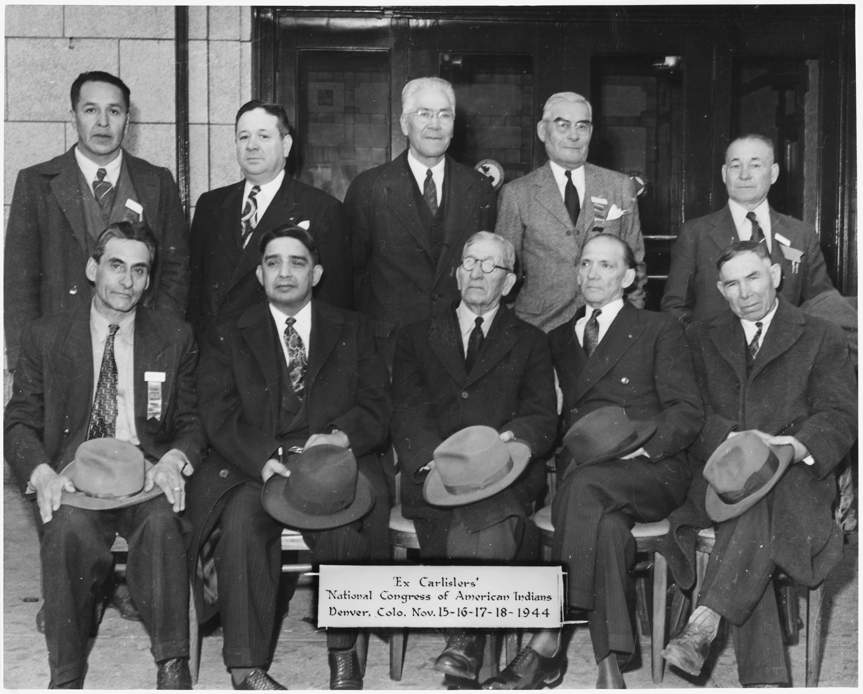 Scope and content: Records document the activites of George LaVatta as Organizational Field Agent in the 1930's. Included are records and photos conerning construction at various agencies, the reorganization of the Bureau of Indian Affairs, and photos and reports of various Indian schools.